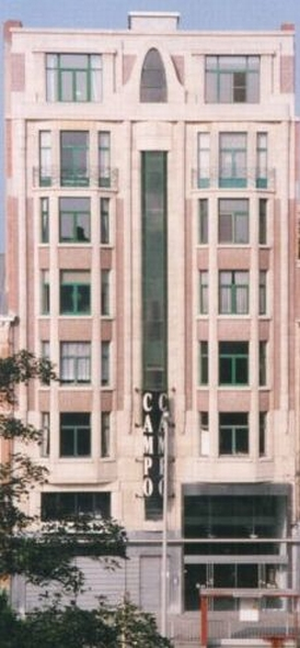 'Berchem Palace', a former movie theatre in Berchem, near Antwerp. There was an art gallery on the ground floor when this picture was taken.